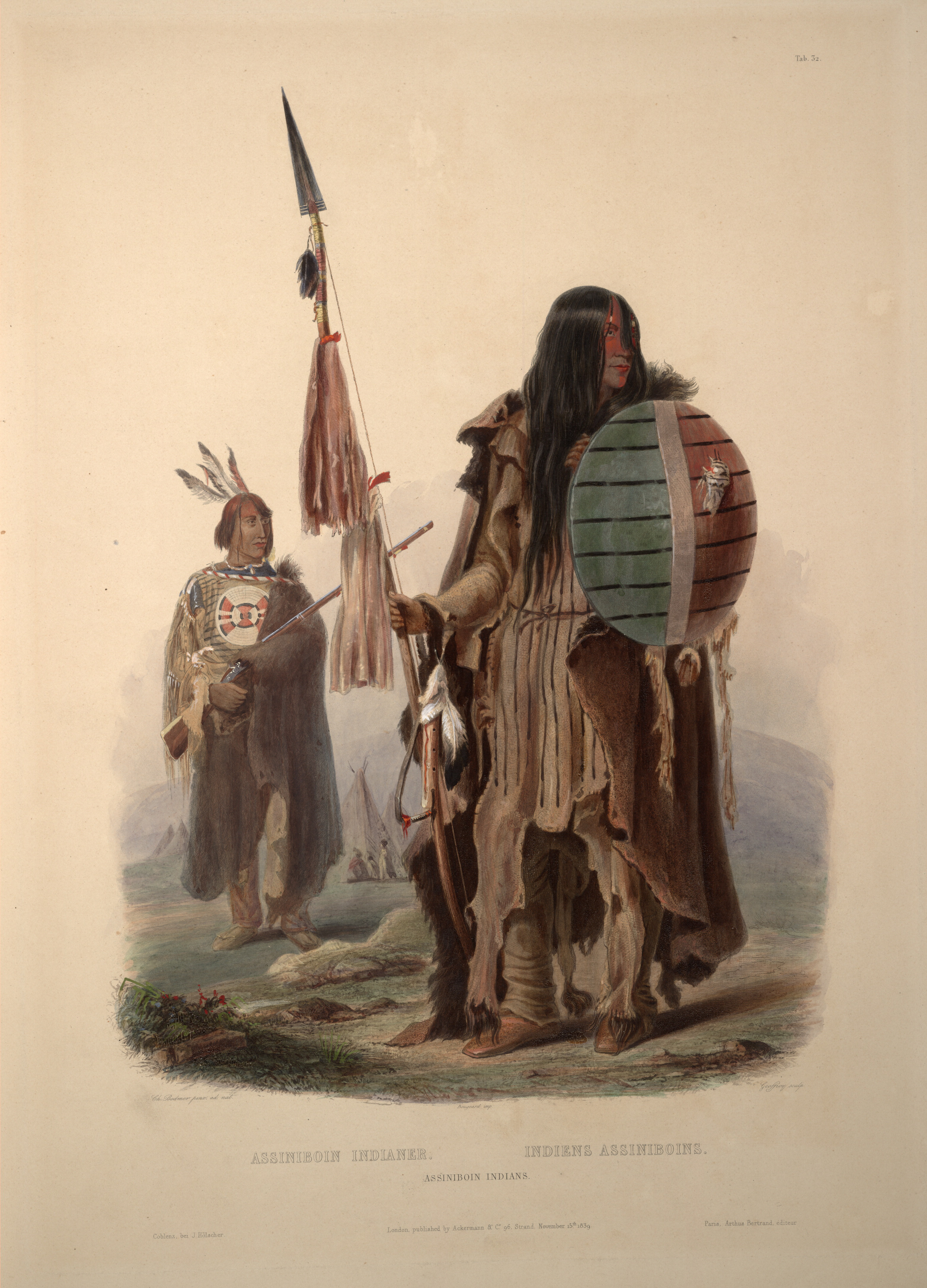 Assiniboin indians